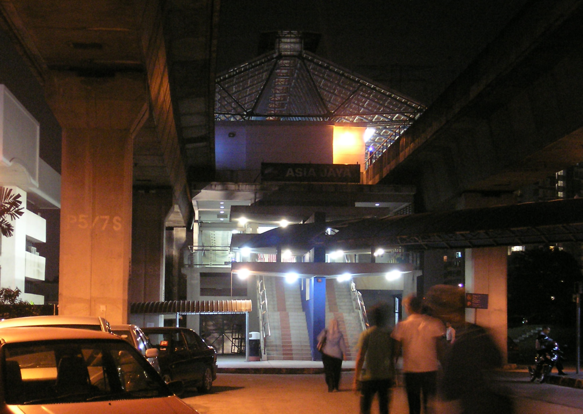 The exterior of the Asia Jaya LRT station (Kelana Jaya Line) (at night) in Petaling Jaya, Selangor, Malaysia.